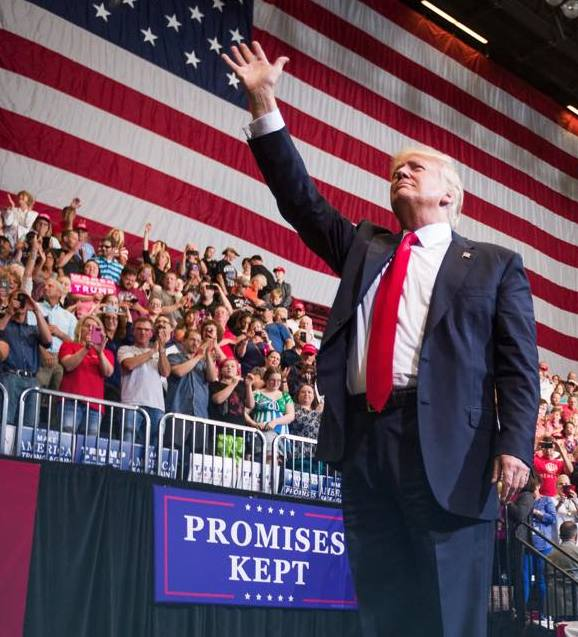 Trump tweet on July 4th (in an image posted to his Facebook)